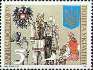 Stamp of Ukraine